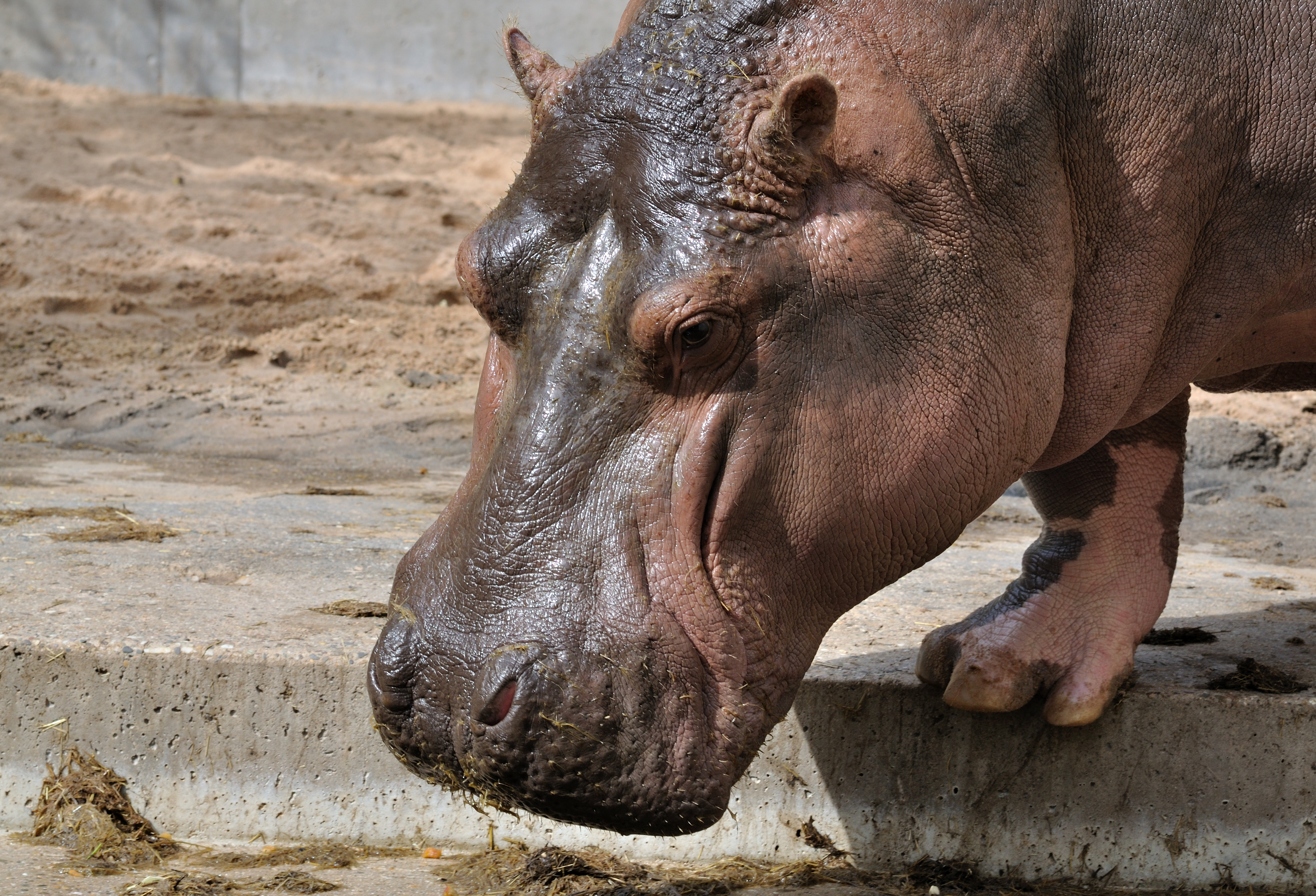 Portrait of a Hippo (Hippopotamus amphibius) in the Wilhelma, Stuttgart, Germany.